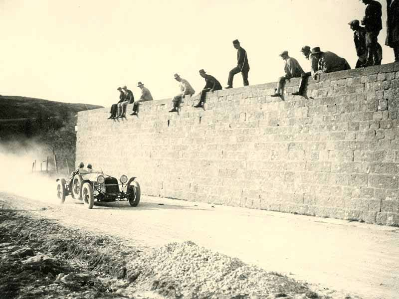 Maserati 4CTR, a 1.1 litre racing car made in 1931. 4C means 4 cylinders. TR means "Testa Riportata". It was the last designed by Alfieri Maserati who died 3 March 1932.[1] The location seems to be the Muraglione della Futa (big wall at Futa) outside Florence, which is along the Mille Miglia route. This may therefore be a month after Alfieri's death, on 10 April 1932, when Giuseppe Tuffanelli and Guerino Bertocchi drove a Maserati 4 CTR 1100 to a 20th place.[2]